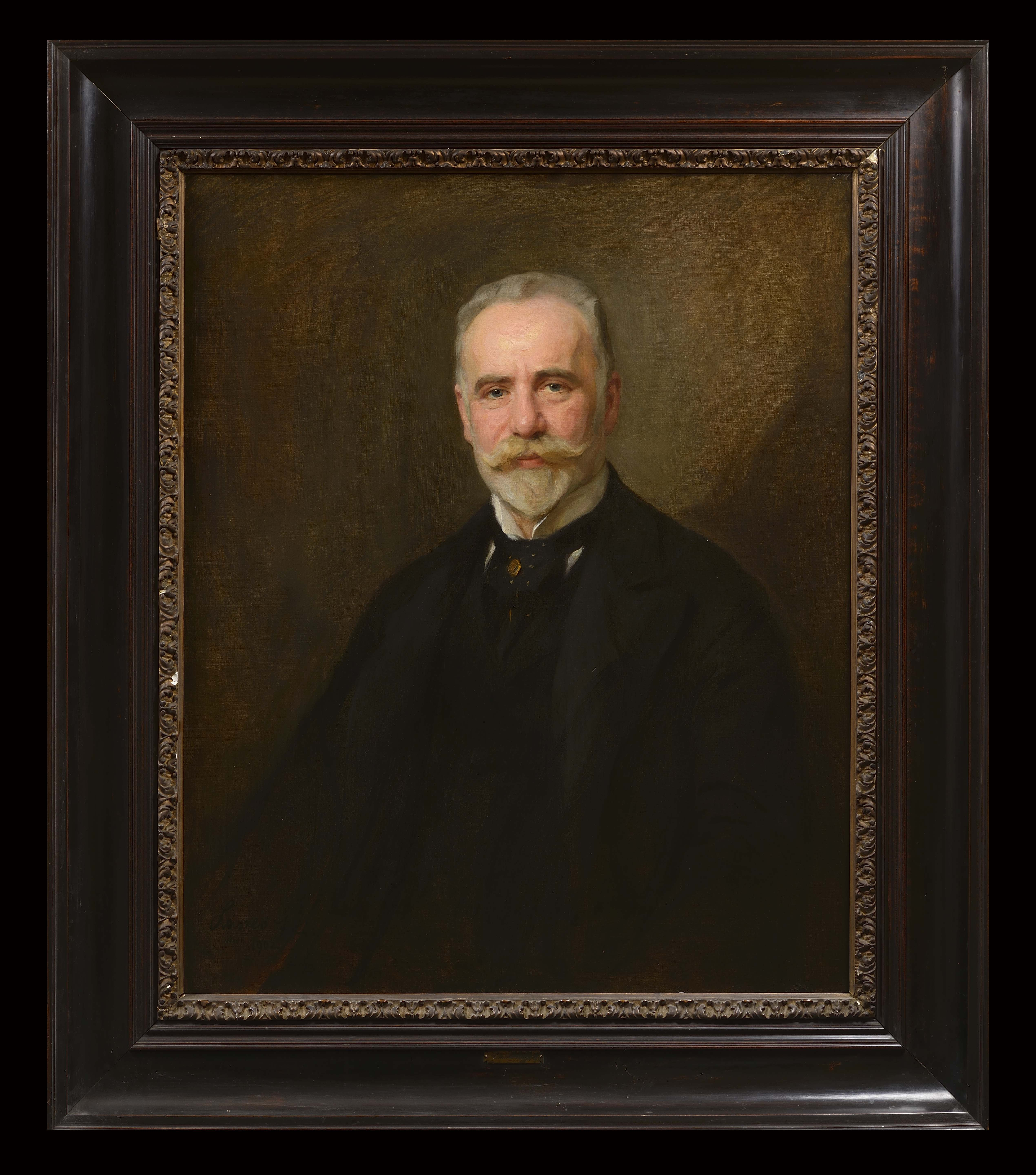 Max Feilchenfeld painted by Philip de László (1902).